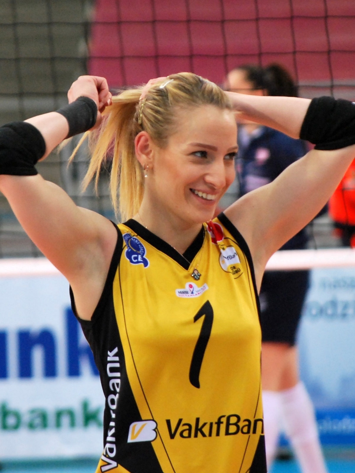 Hatice Gizem Örge, volleyball player from Turkey